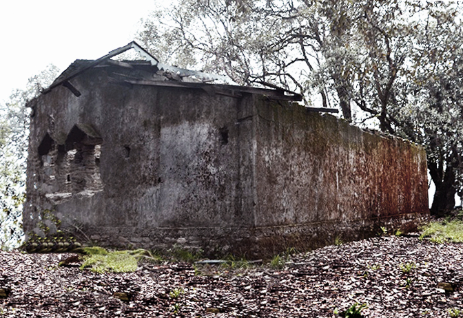 Rabindranath Tagore's hilltop abode at Ramgarh.